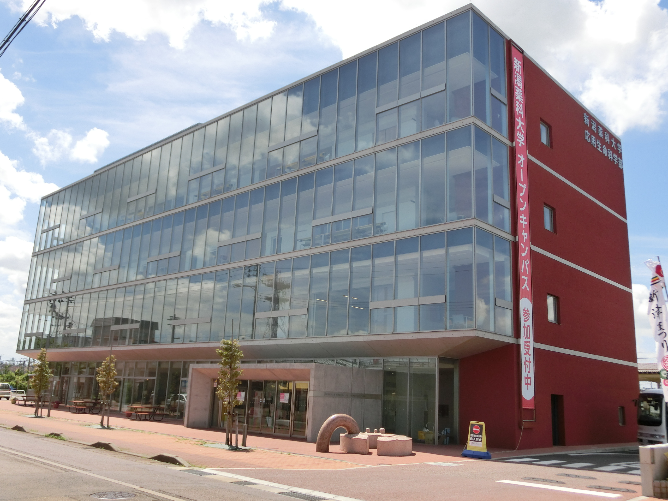 Niigata University of Pharmacy and Applied Life Sciences Niitsu Station Campus EAST